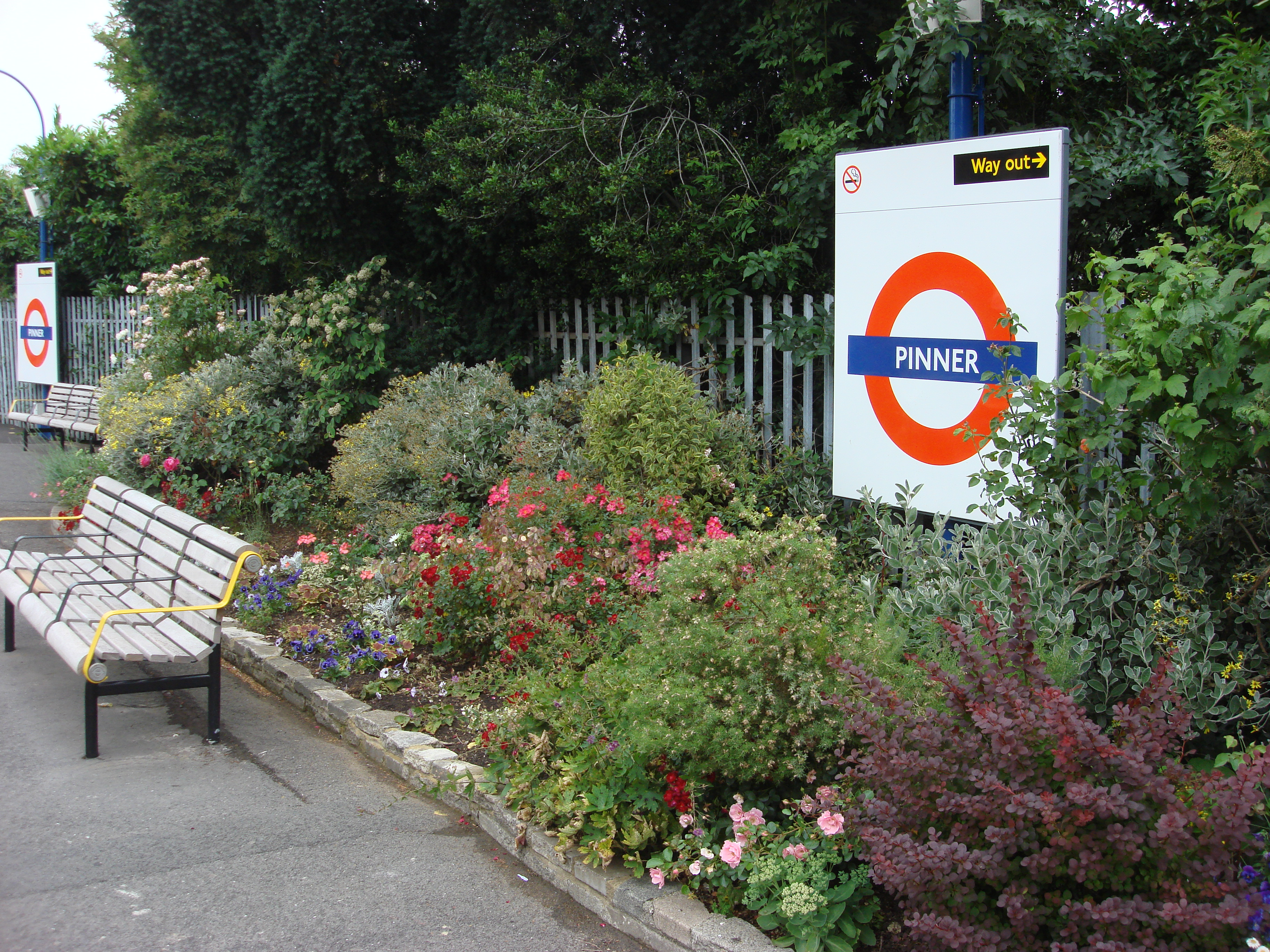 Pinner tube station, flowerbeds